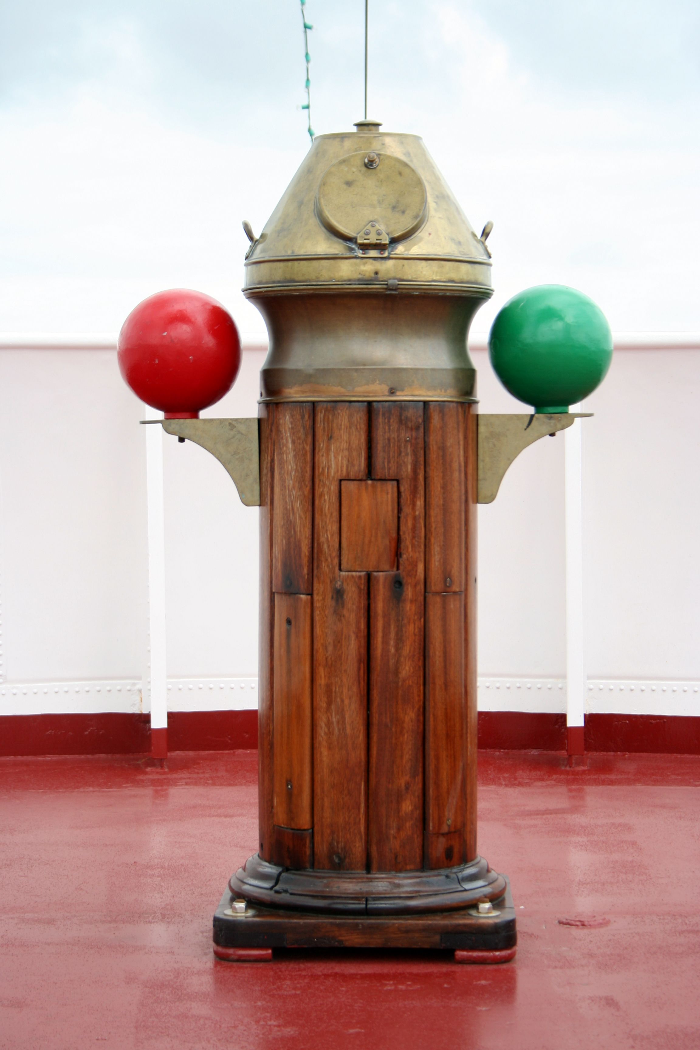 Compass on the weather ship France I.